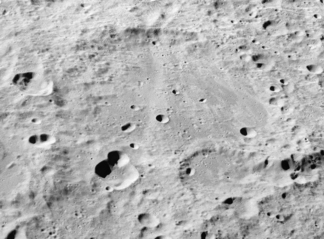 Oblique view of Szilard, on the far side of the moon. North is in upper right.